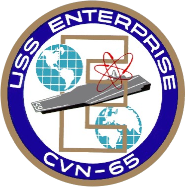 Coat of arms of USS Enterprise (CVN-65)